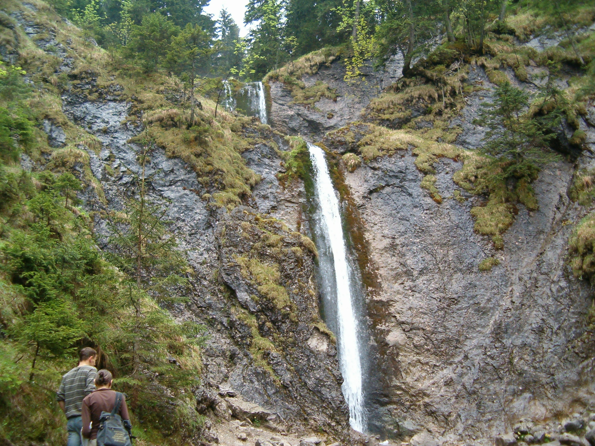 Siklawica waterfall in Strążyska Valley, Tatras, Poland